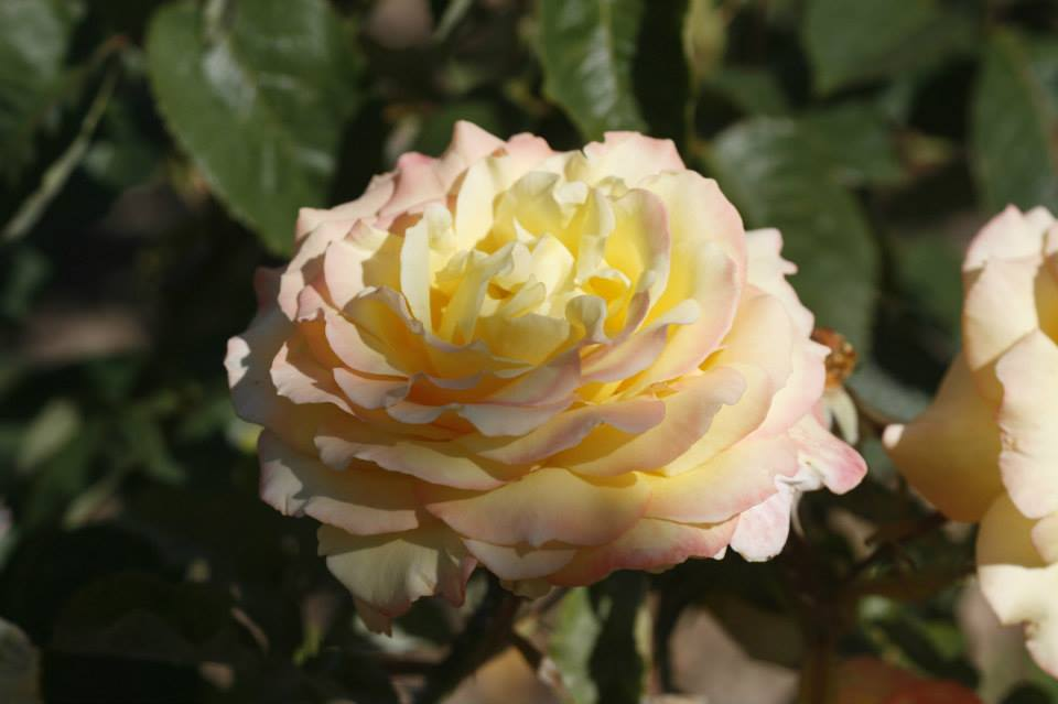 Rosa 'Peace' Meilland, in the "Rosaleda Ángel Esteban" de Alcalá de Henares